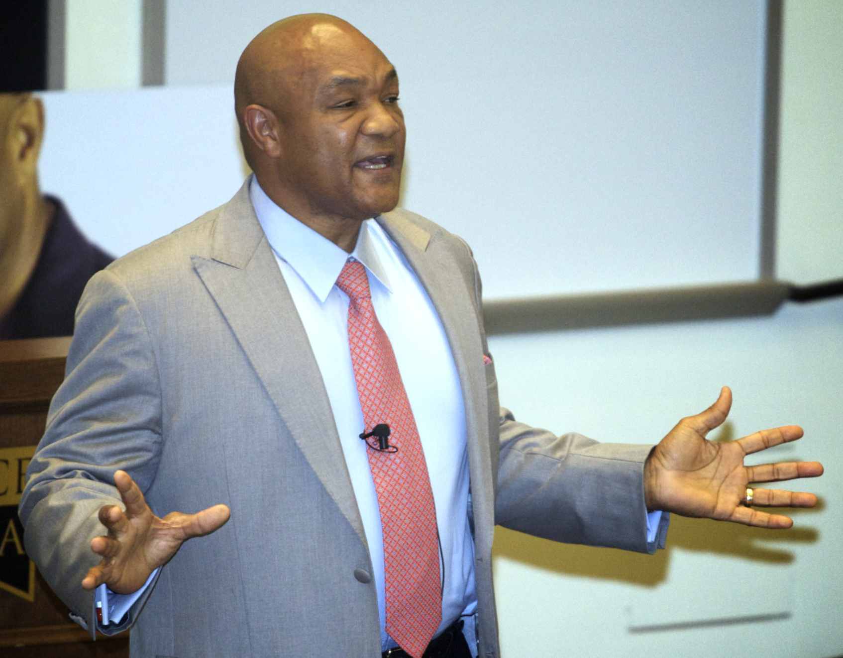 George Foreman speaking at the Rice Alliance Kickoff in Houston, Texas in September 2009.